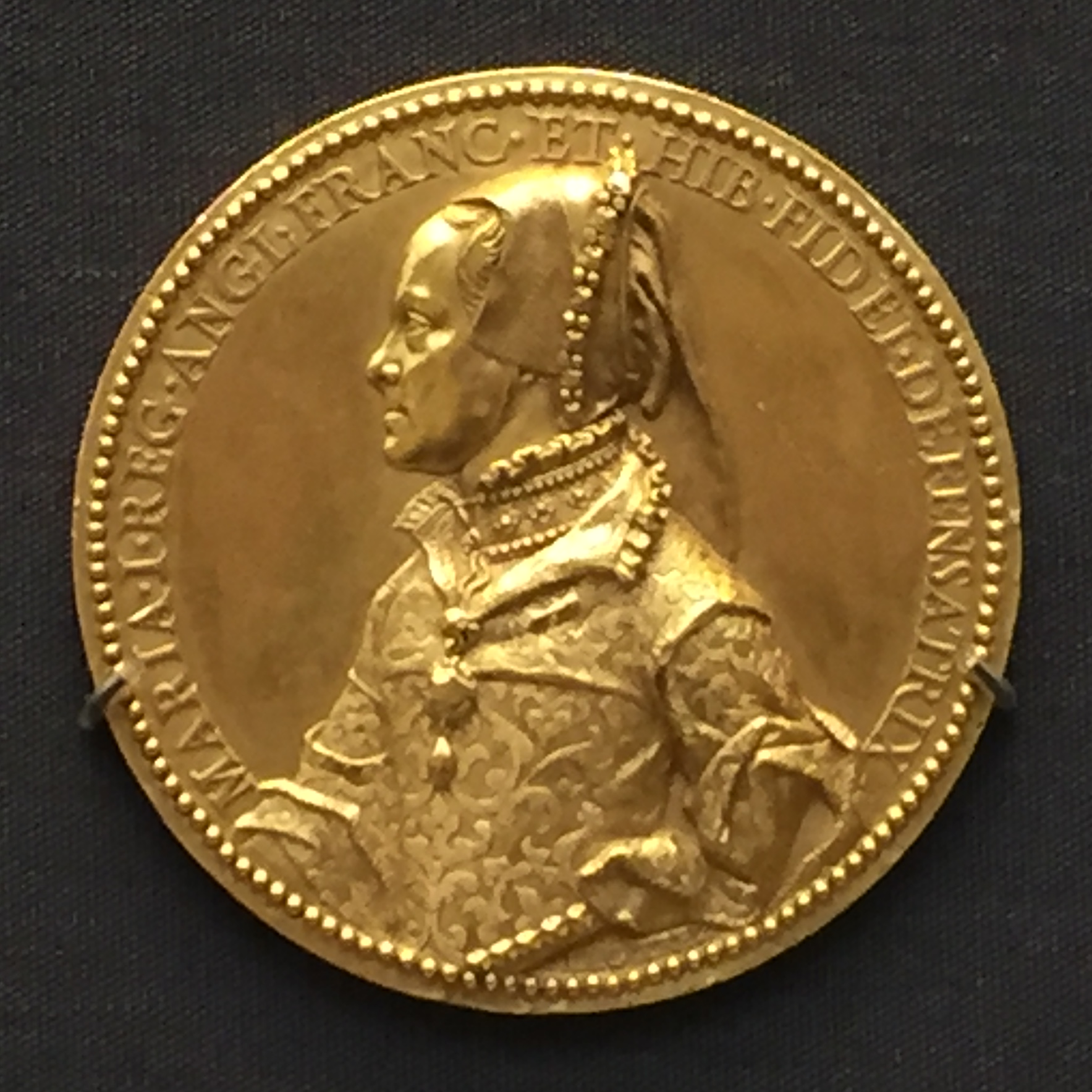 Gold medal minted in 1555 that depicts Queen Mary I of England. The legend, in Latin, says "Maria I Reg. Angl. Franc. et Hib. Fidei Defensatrix" i.e. "Mary I queen of England, France and Ireland, defender of the faith". British Museum, London, UK.